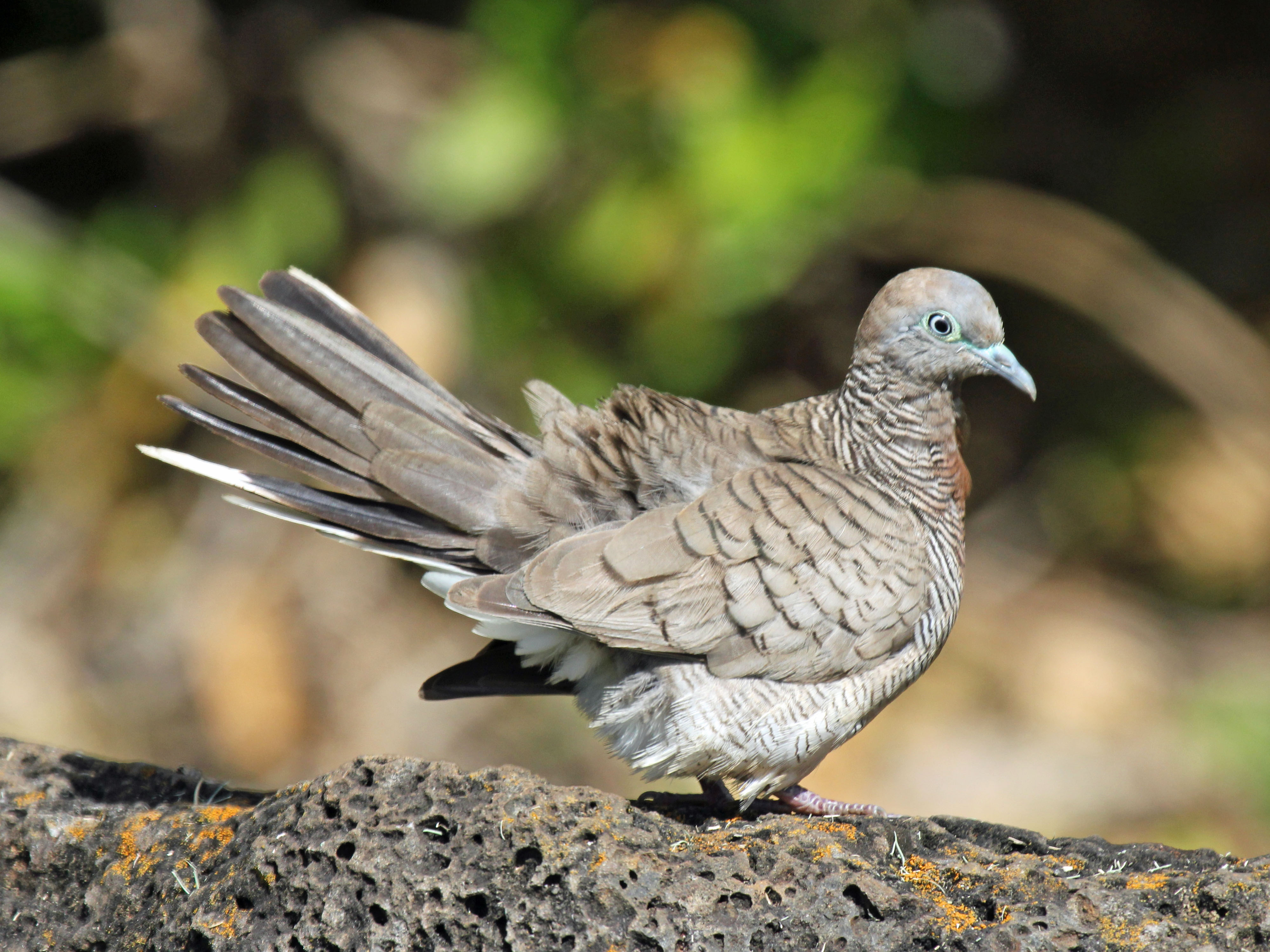 Zebra Dove (Geopelia striata) - Kauai, Hawaii